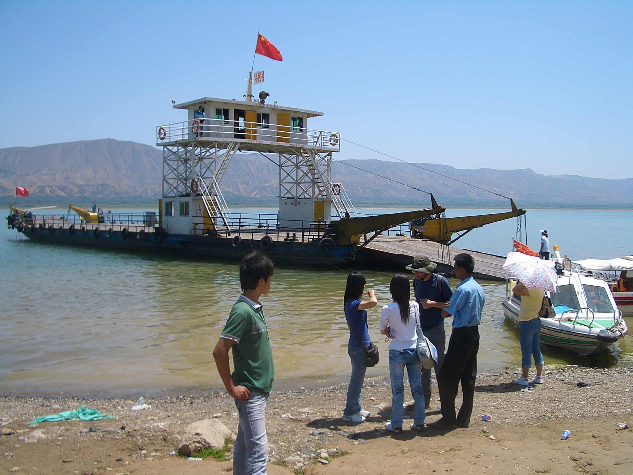 Baots at the Lianhua Tai ferry terminal - Linxia County's main port. The vehicle ferry is empty at the moment, as cars, trucks and buses have not started loading yet.